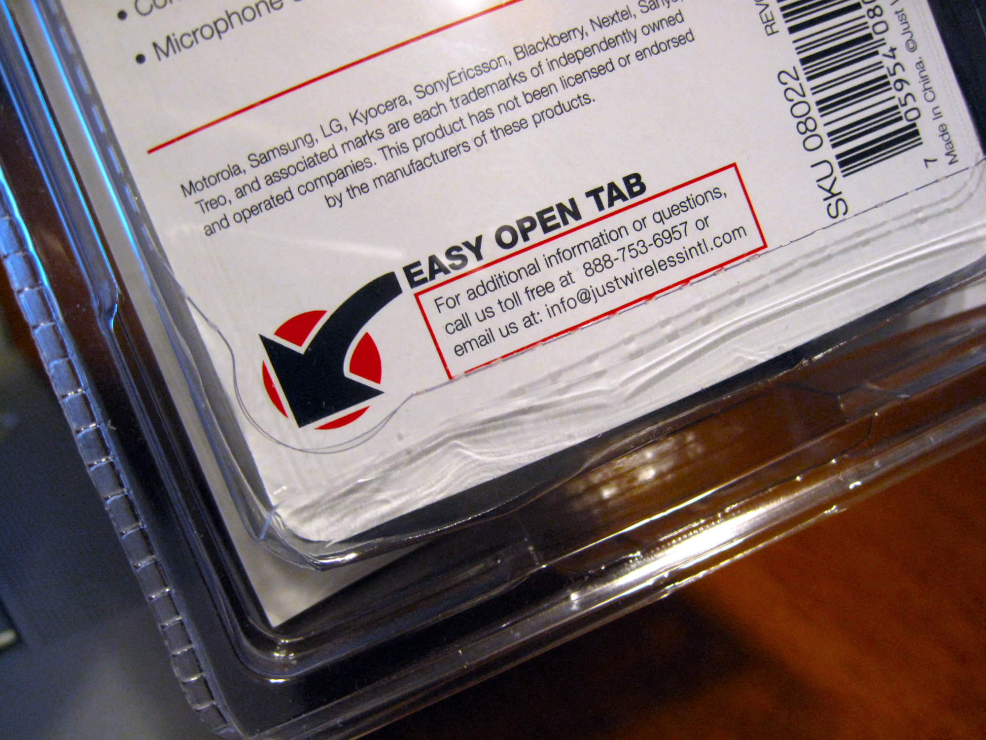 I lack a knife appendage, so like many, I curse at the plastic packaging that defies opening without use of Sharp Dangerous Instruments. This Just Wireless product is a rare exception. Is there a Nobel Prize for Packaging Design?